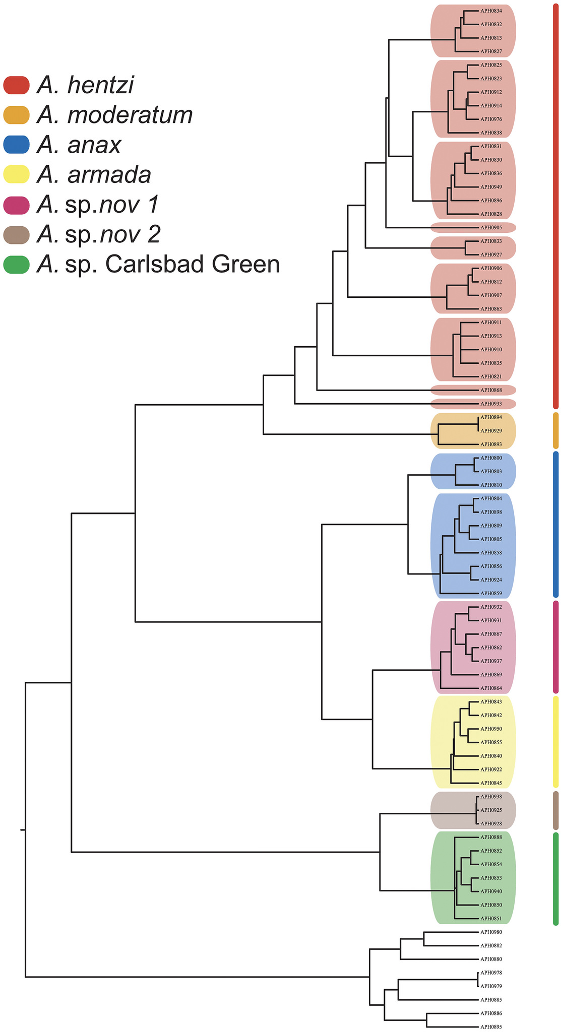 Coalescent theory